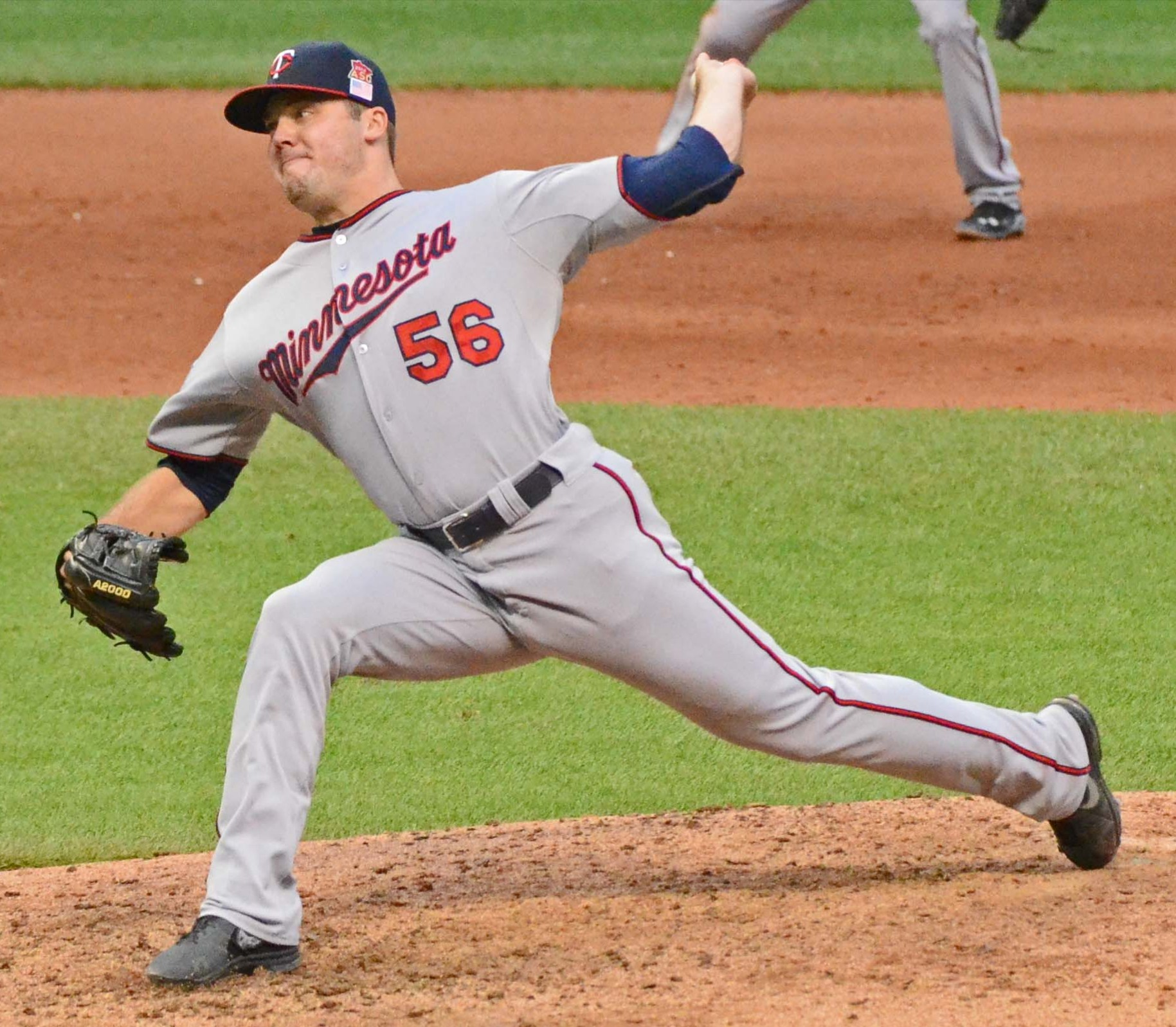 Caleb Thielbar pitching for the Minnesota Twins On September 11, 2014